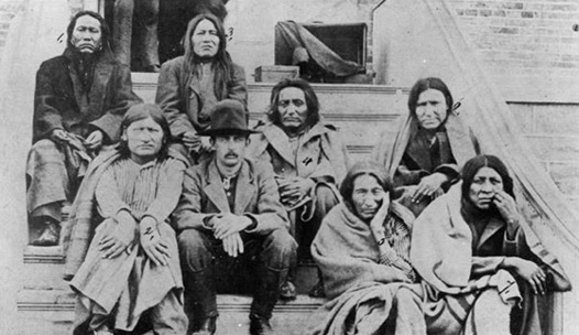 Photograph of Cheyenne Indian prisoners in Kansas following the Northern Cheyenne Exodus of 1878-79. From left to right: Tangle Hair, Wild Hog, Strong Left Hand, George Reynolds (interpreter), Old Crow, Noisy Walker, Porcupine, and Blacksmith. All prisoners were released free from charges.